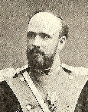 Karl Oskar Wasastjerna (1853-1923) portrait circa 1890-1900